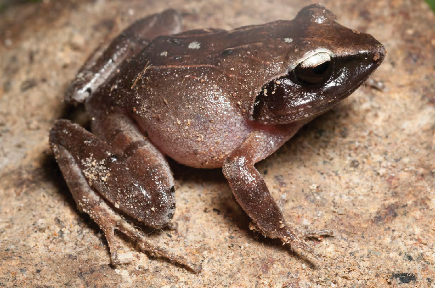 Platymantis corrugatus (KU 330255) from mid-elevation of Mt. Cagua. Photo: RMB.